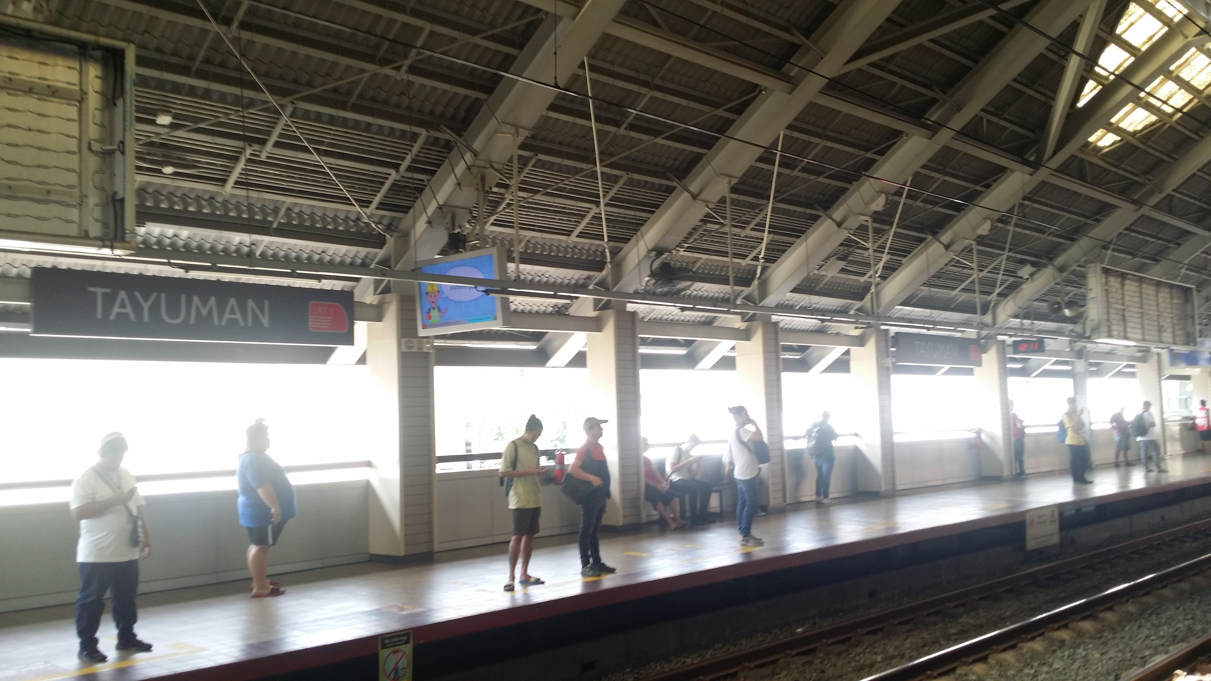 A concourse and platform of LRT Tayuman Station